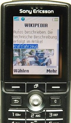 sevenval-wikipedia proxy on Sony Ericsson K750i, detail of IMage:SEK750i.jpg